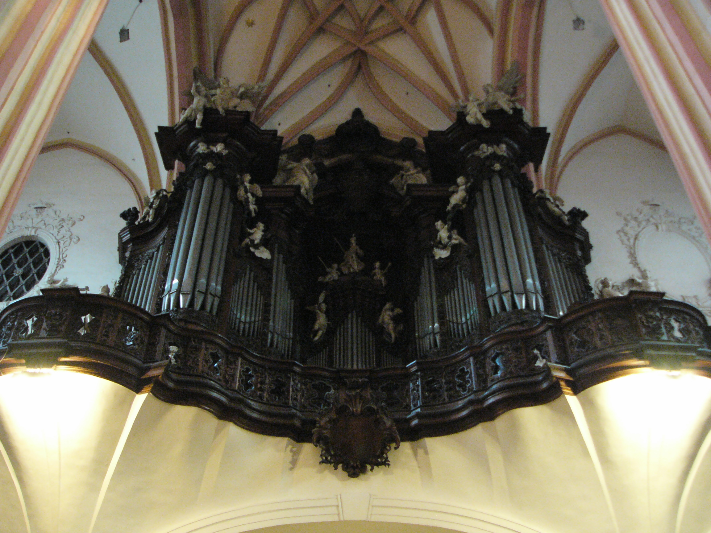 Organs in church kostel sv. Mořice in Olomouc (Czech Republic).